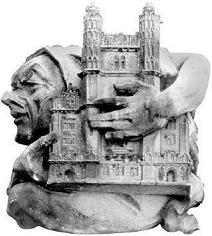 One of CCNY's 600 grotesques on its buildings. It is over 100 years old and I fashioned and edited the photograph myself. The original image was in the document